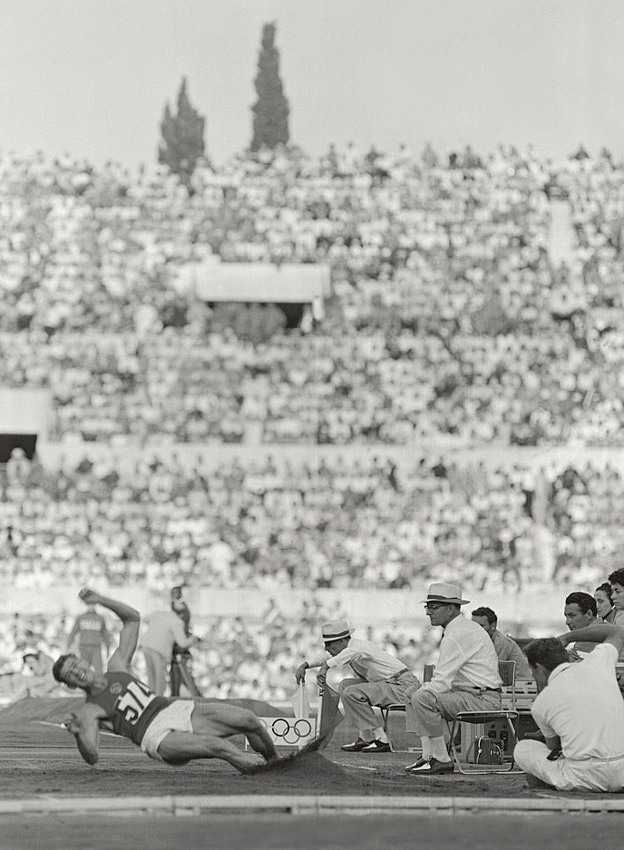 The Sovietic Atlete Vitold Kreyer knock down on the sand at the end of his own triple jump exhibition, facing judges in line; the Russian athlete will finish competitions with the third jump longer, obtained the bronze medal. Rome